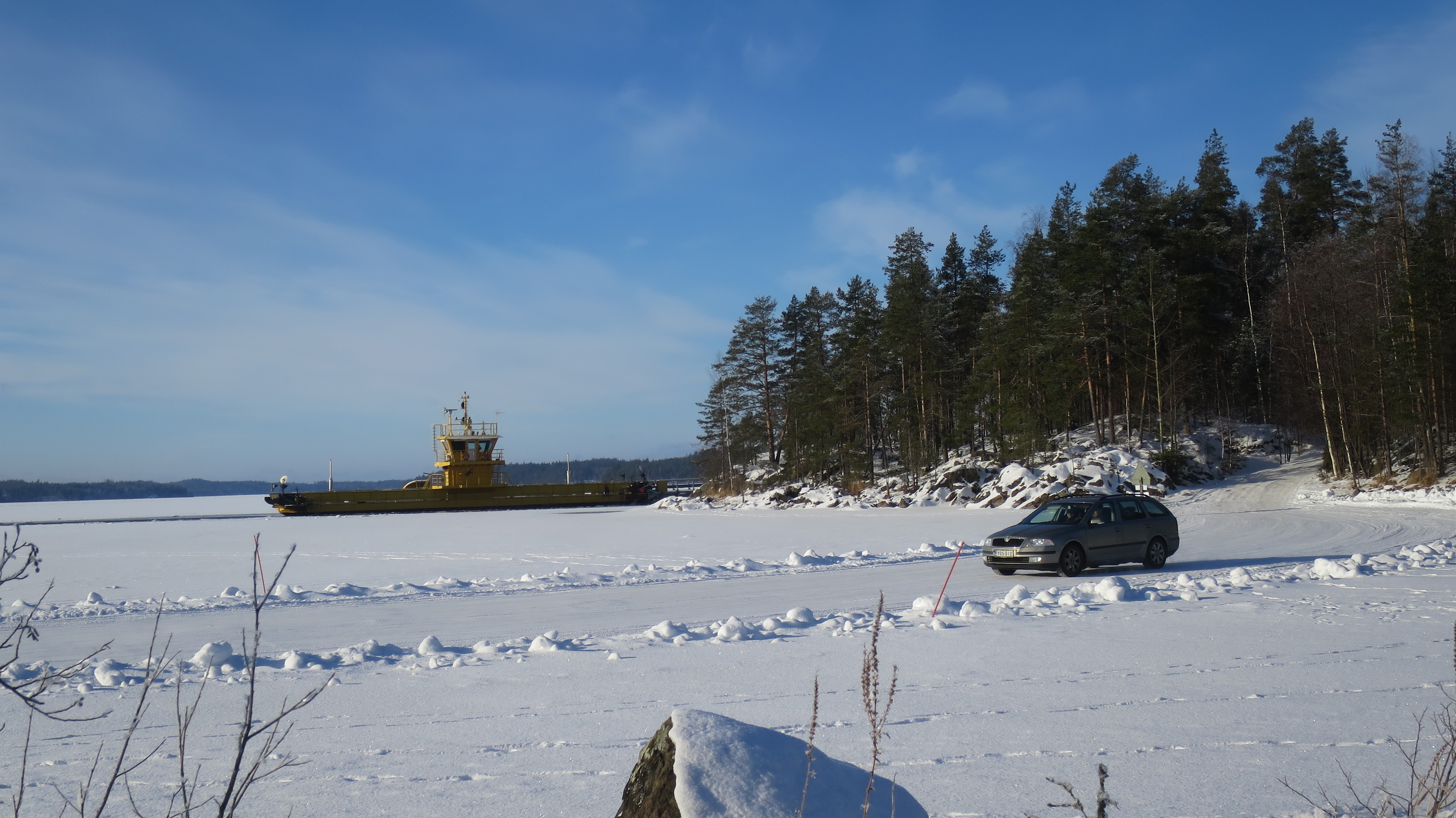 Ferry in Koivukanta and ice road parallel to the ferry line in Koivukanta, Savonlinna.